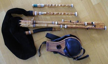 modernized swedish bagpipe from Alban Faust, made bysv:Användare:I99jonma